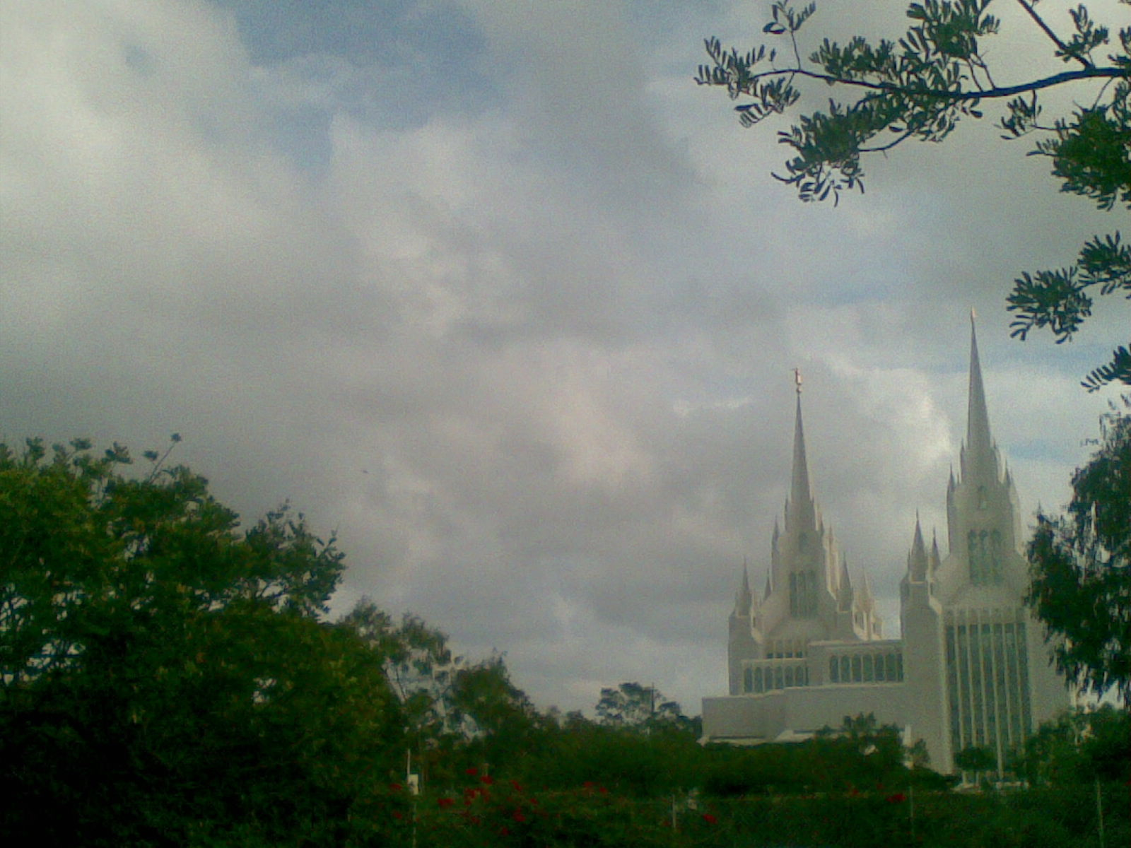 Picture of Smoke caused by F/A-18 Crash in University City, San Diego, CA, United States